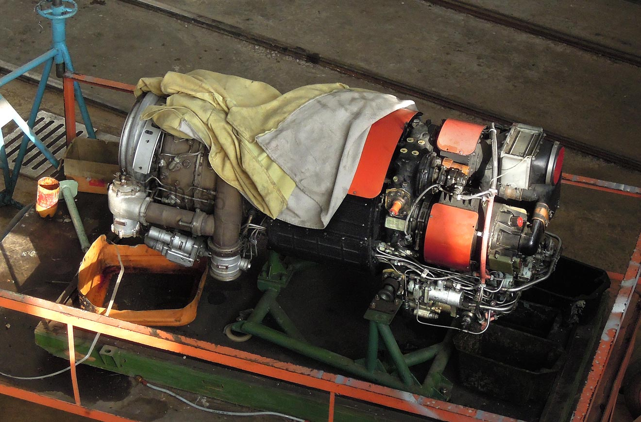 Auxiliary power unit TA-12 for Antonov An-74, An-124, Tupolev Tu-95MS and other aircrafts